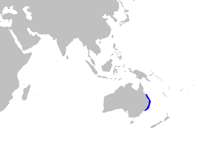 Distribution map for Heterodontus galeatus